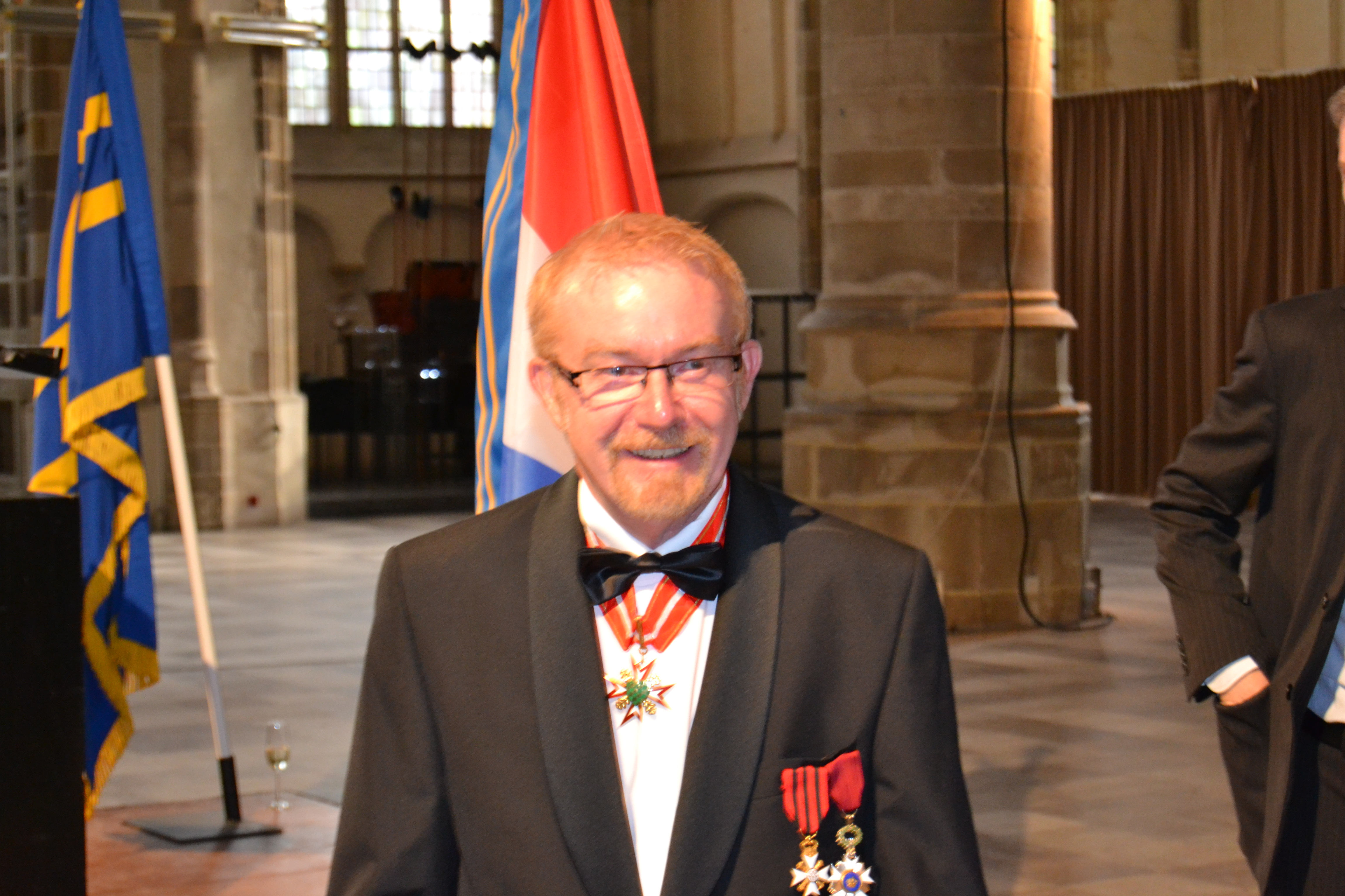 Michel R. Lupant at the 25th ICV. Rotterdam 2013